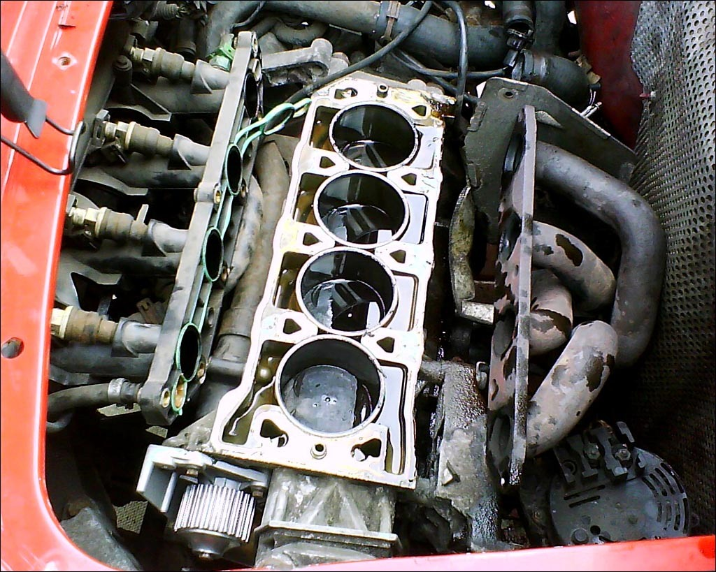 The engine block of the Rover K-series 'K18' engine (with the cylinder head removed).